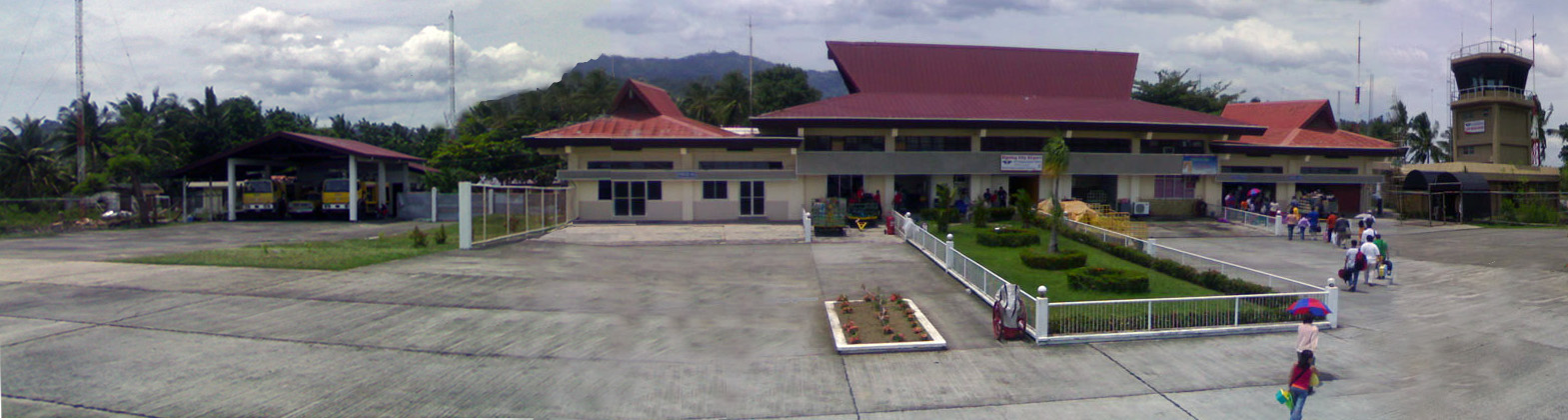 Photo courtesy ARIEL C. NUNAG, Philippine Copyright 2007